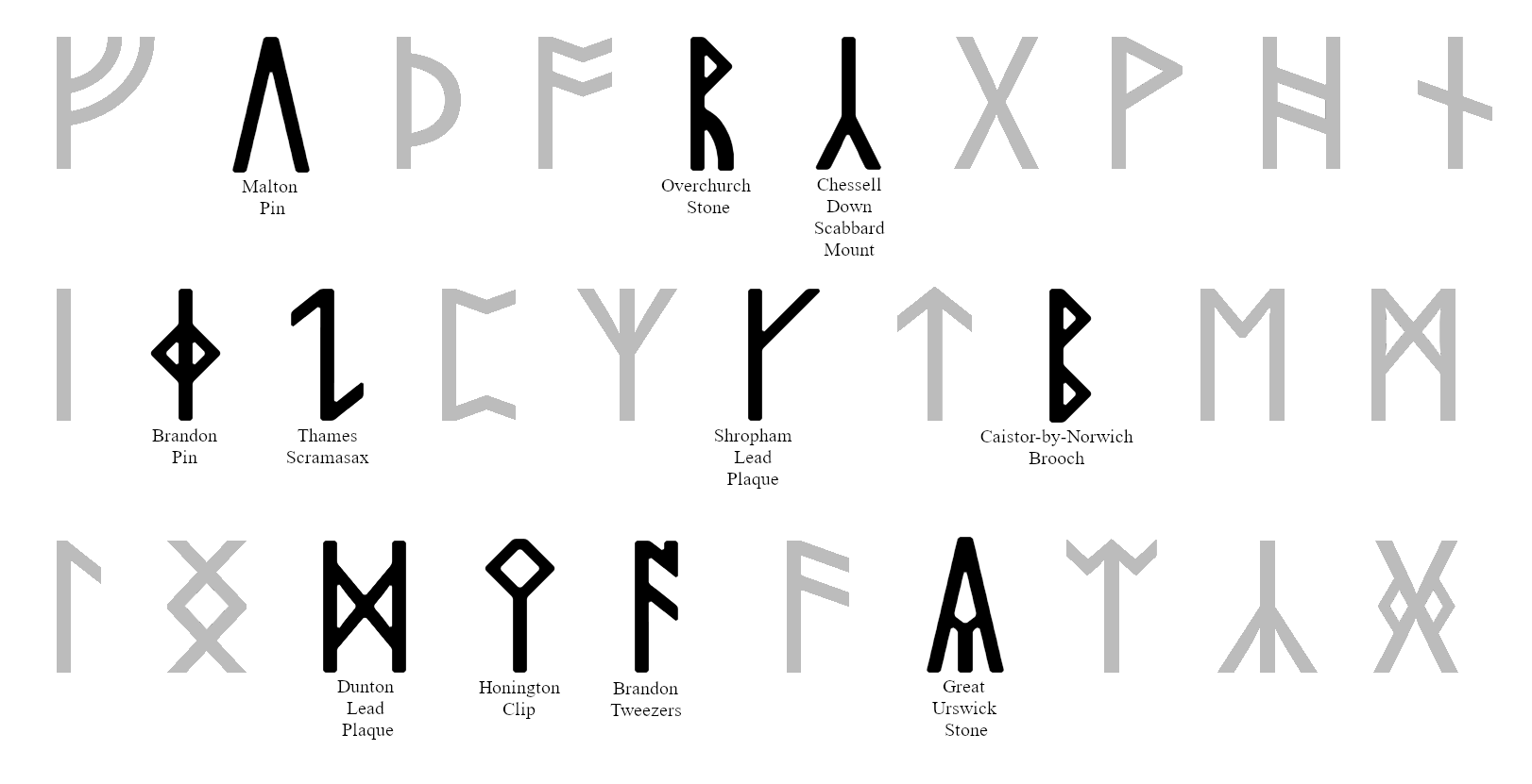 a runerow showing less common variant shapes of futhorc runes